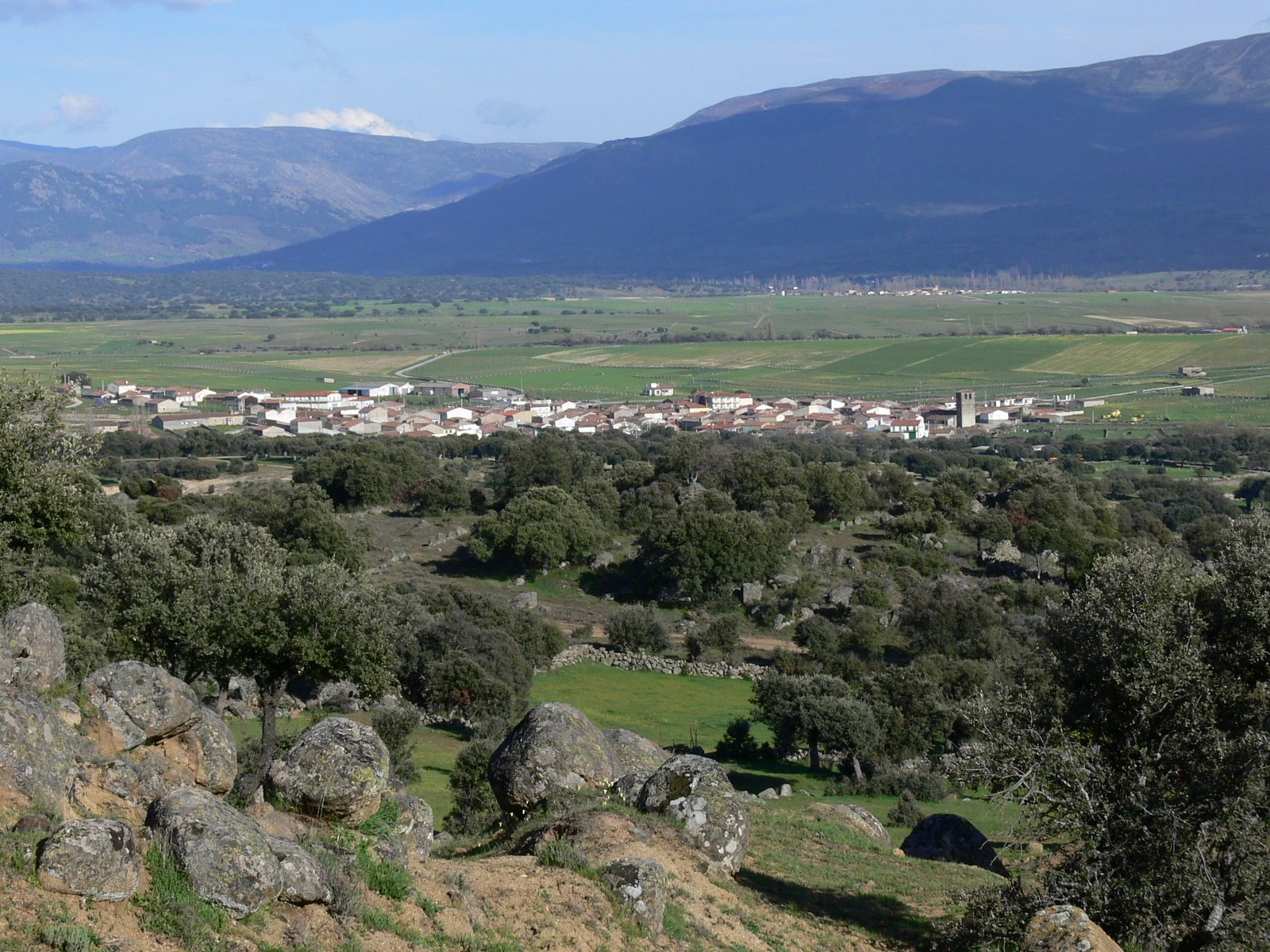 valle del corneja, valdecorneja